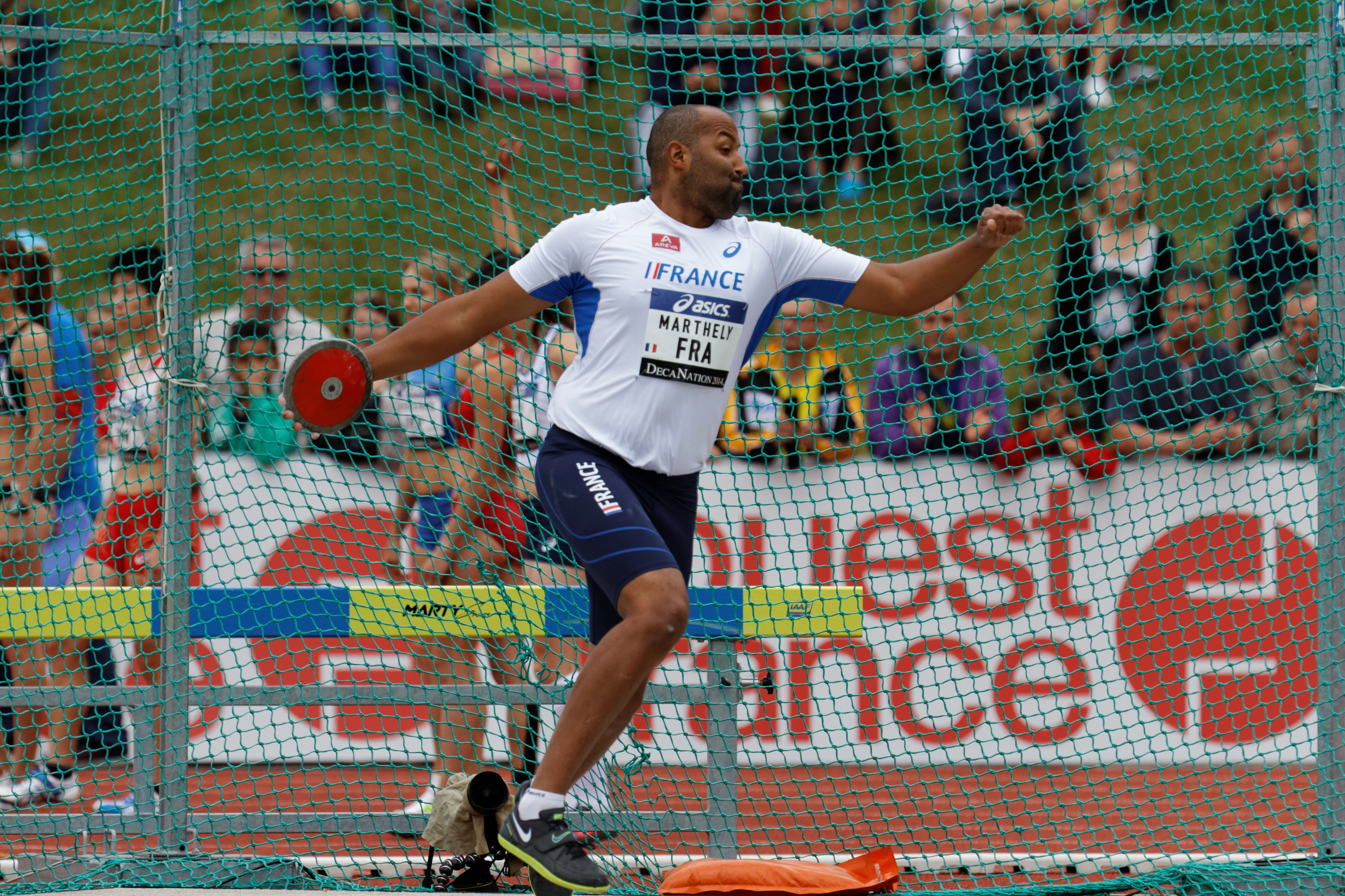 DécaNation 2014. Discus throw. Stéphane Marthely.